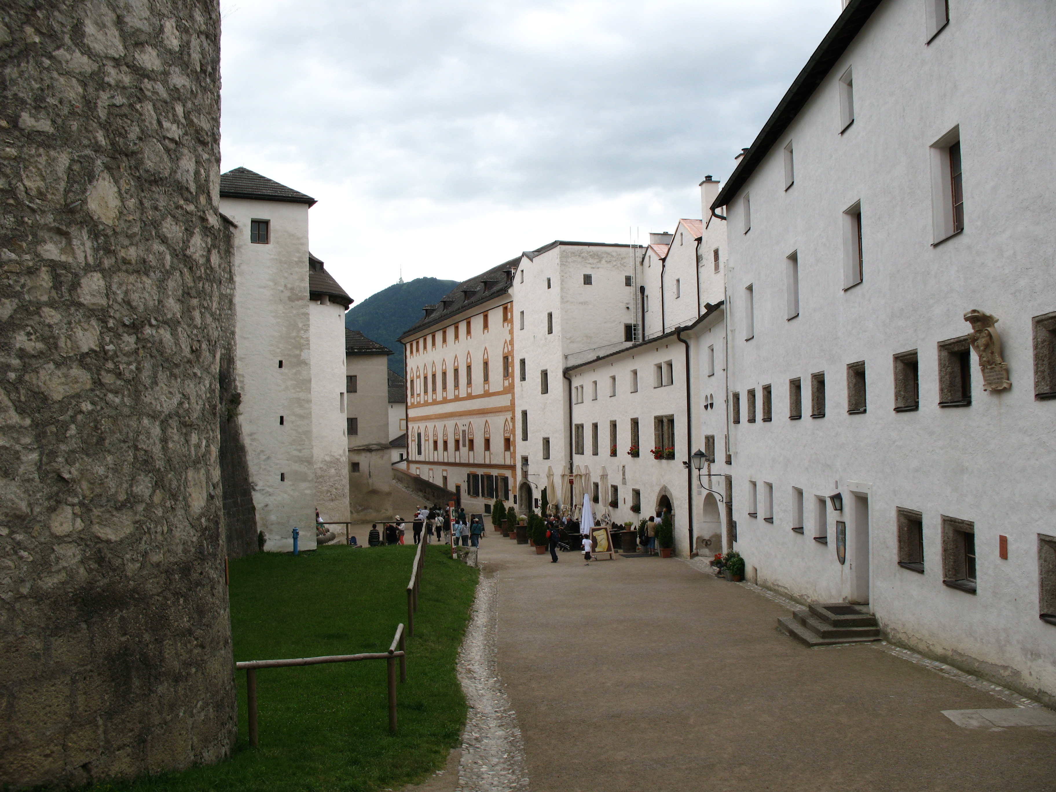 High Fortress, Salzburg, Austria